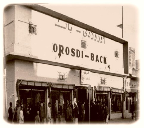 (Orosdi-Back) Shops and markets in Baghdad 1930